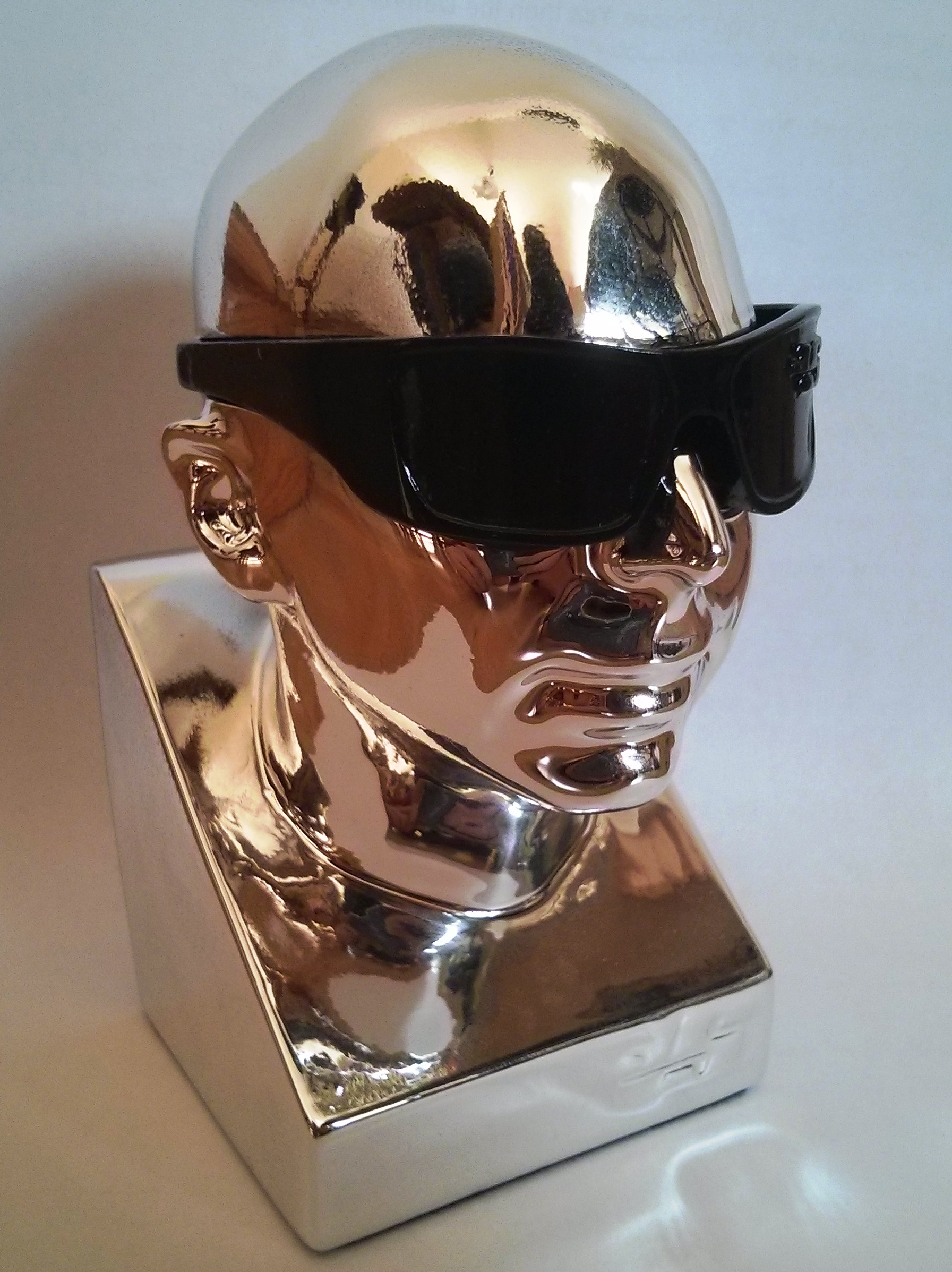 Joe Satriani "Chrome Dome", houses Joe Satriani: The Complete Studio Recordings on two USB sticks.